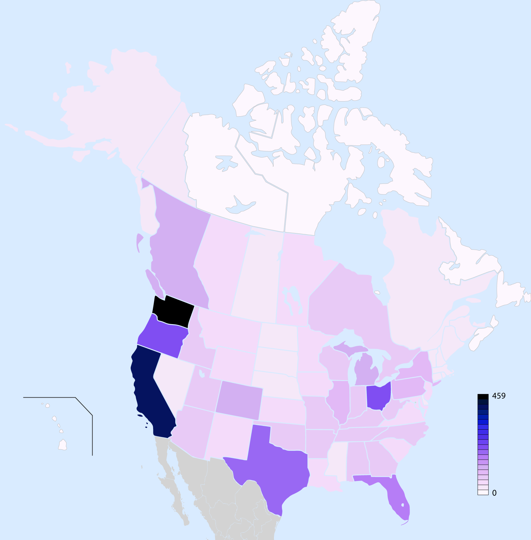 Sightings of Bigfoot in USA based on information from the BFRO Geographical Database of Bigfoot/Sasquatch Sightings & Reports (accessed 2009-04-08).